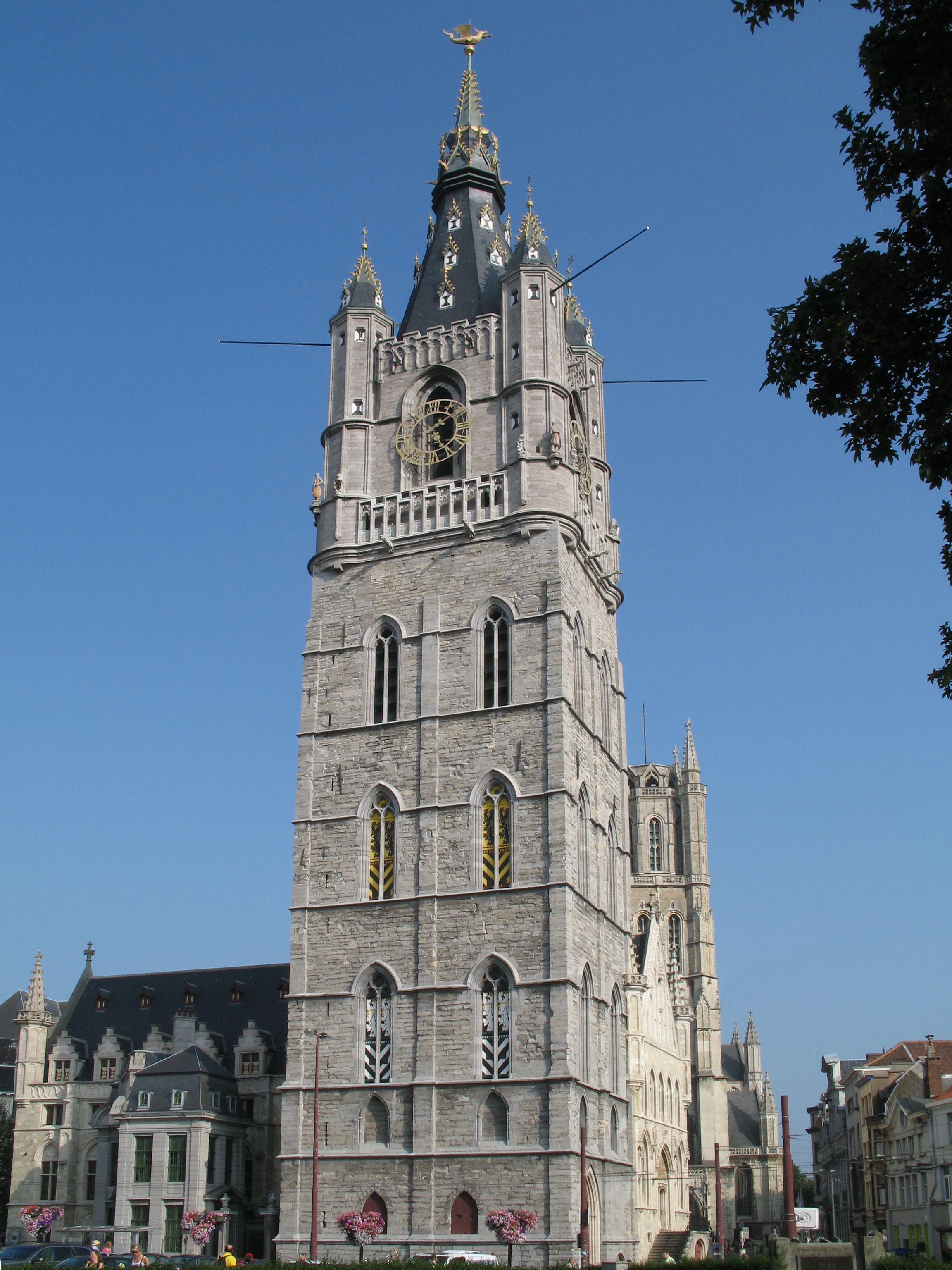 Ghent (Belgium): the belfry